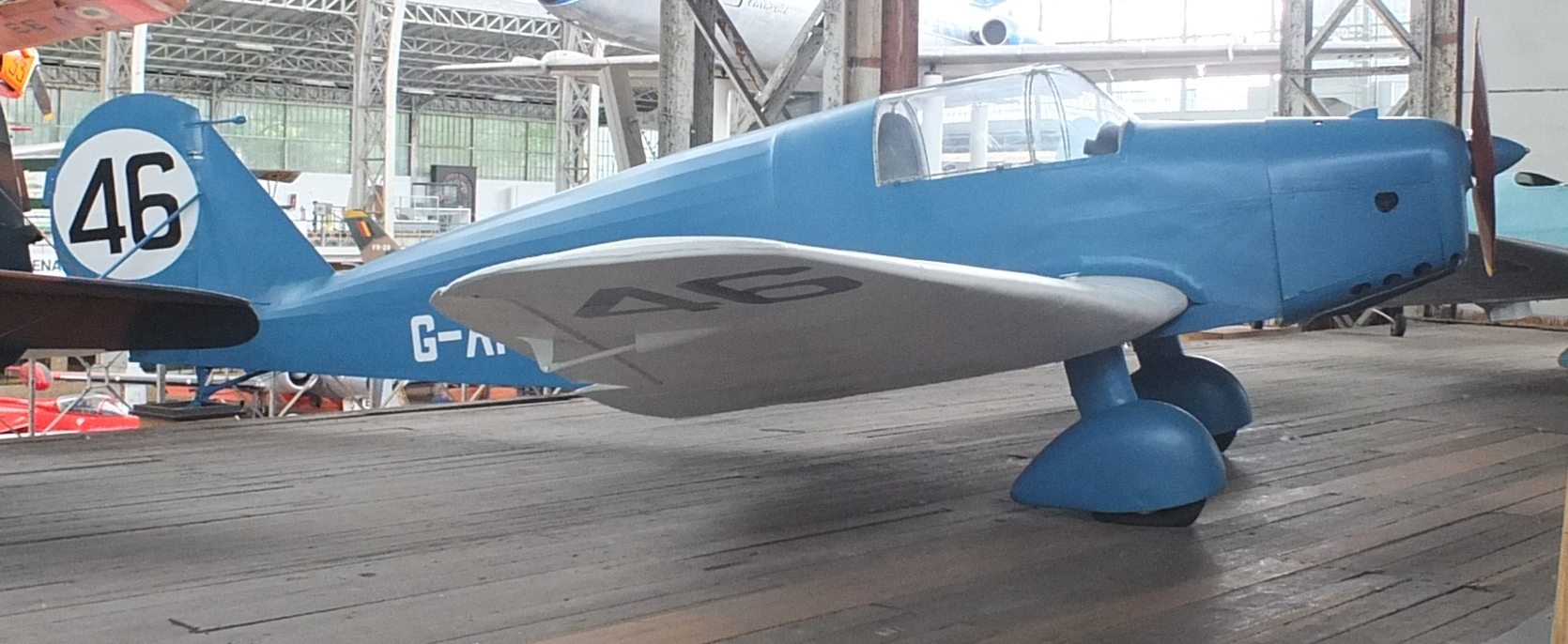 Tipsy Trainer 1 G-AFJR (cn 2), later transformed into a Tipsy Belfair, in the Royal Military Museum at the Jubelpark, Brussels.